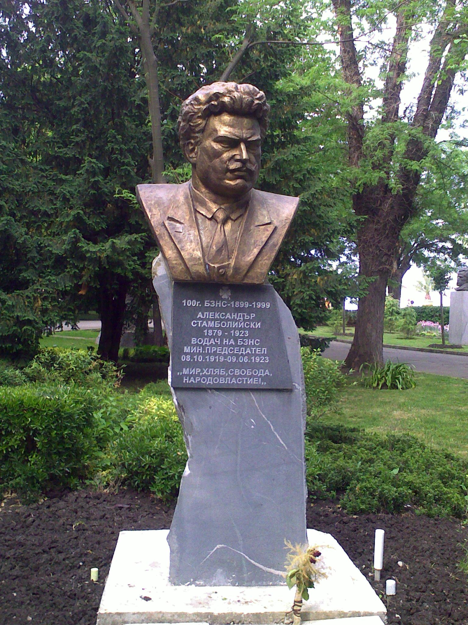 Burgas: Seegarden, Aleksandar Stamboliyski (Александър Стамболийски), Bulgarian prime minister, (b.1879-d.1923)